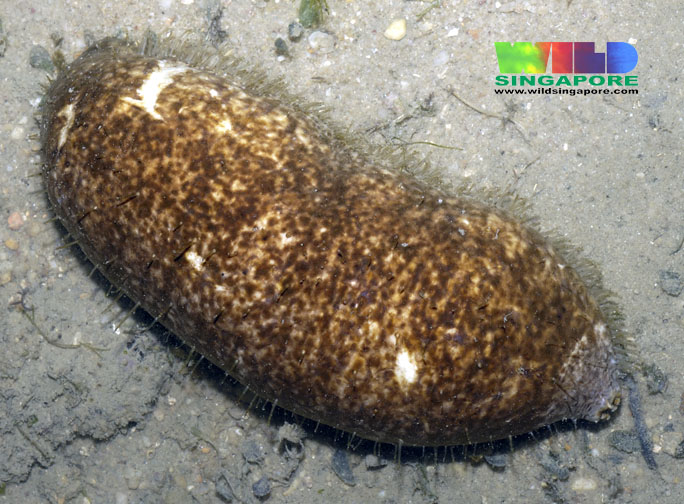 White-rumped sea cucumber (Actinopyga lecanora). More about this sea cucumber on the wildfacts sheets on wildsingapore. For a high res version of this photo, please review the details on about using my photos. When making the request, please include this reference: 060527sjid2310